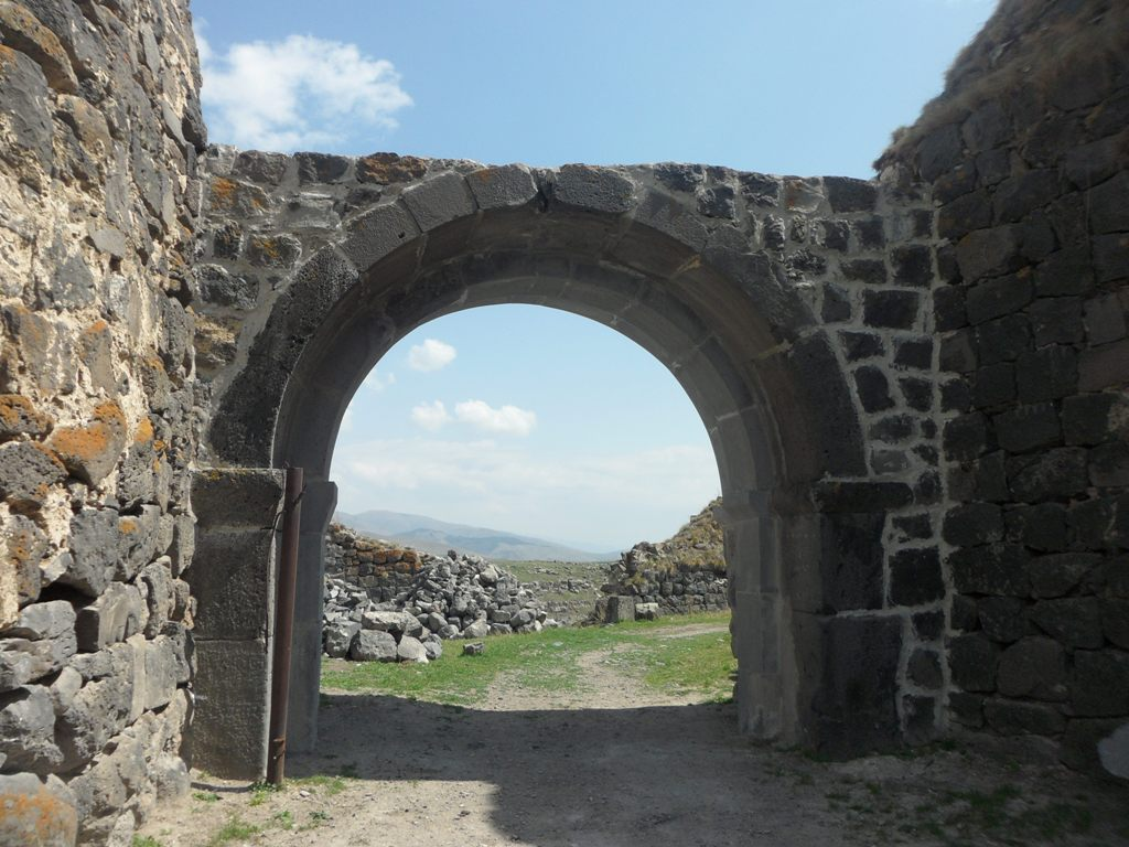 Lori fortress 44/12.1.2